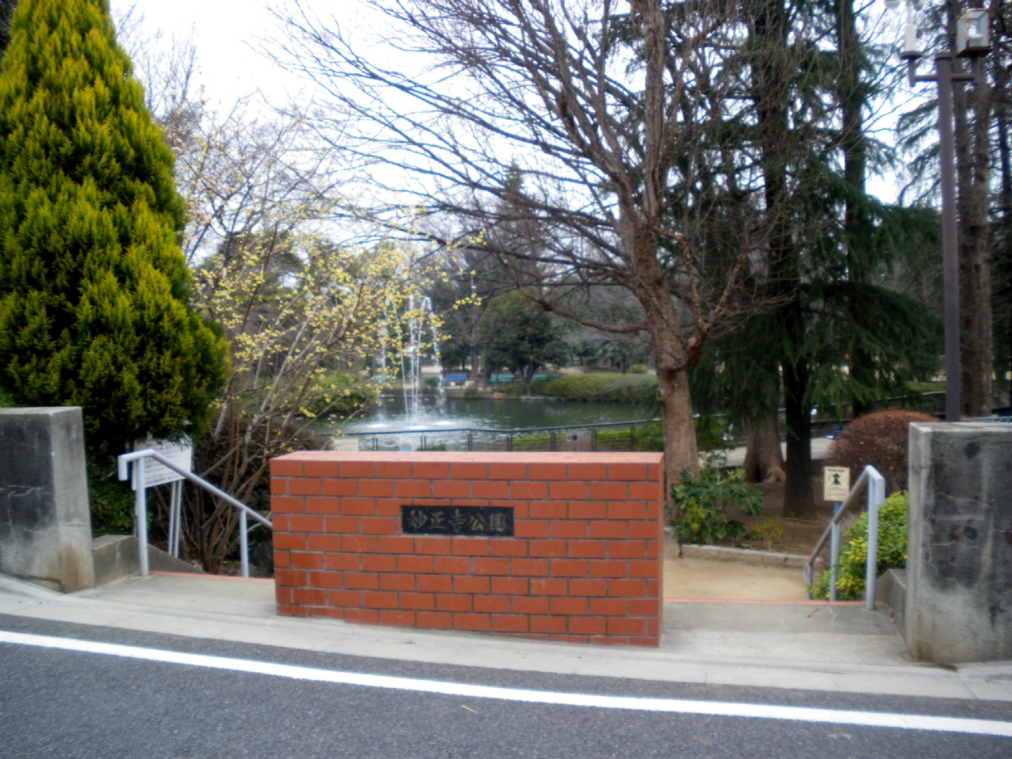 A photo of Myosyoji Park,Shimizu,Suginami-ku,Tokyo,Japan.